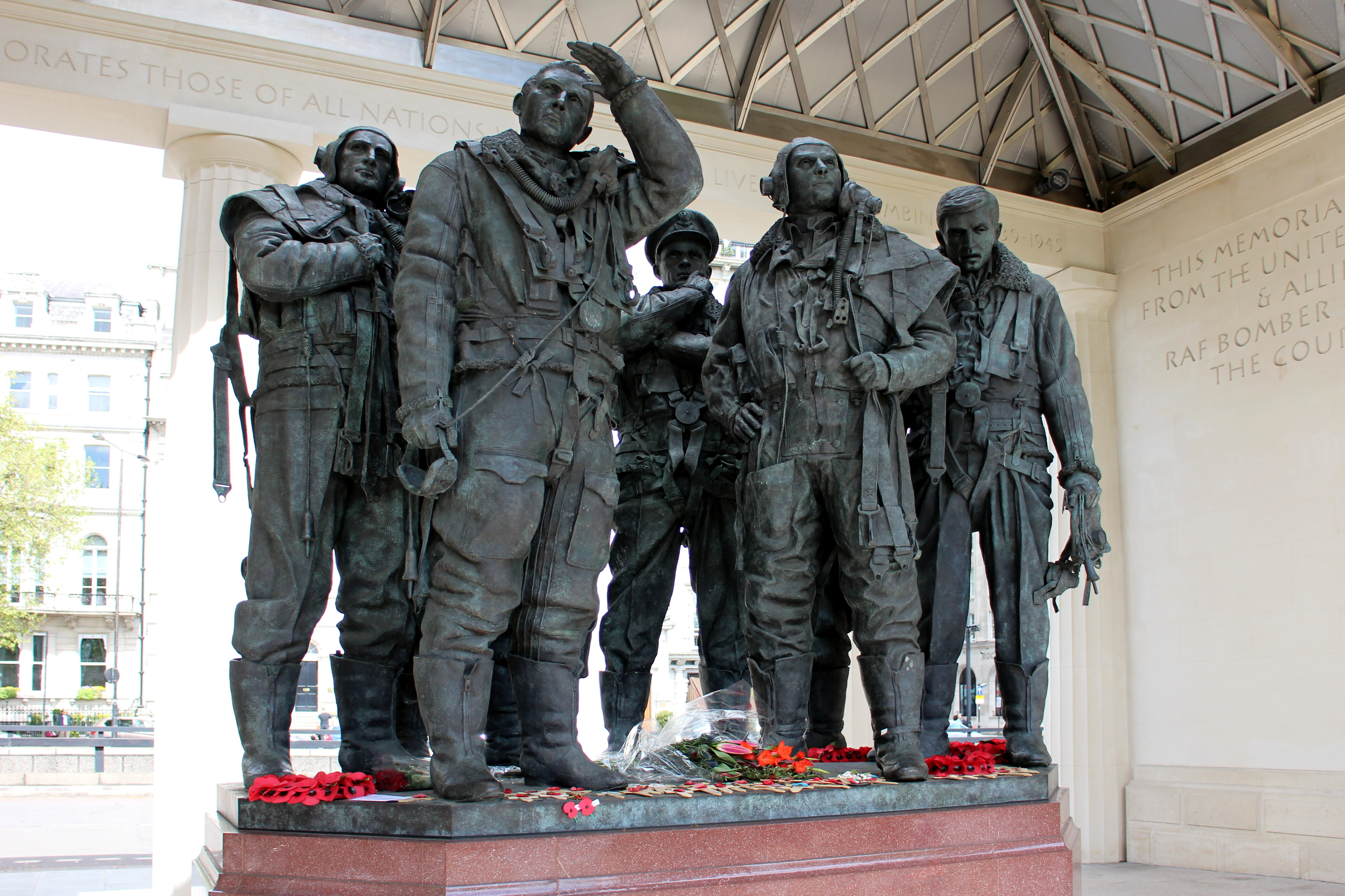 Royal Air Force Bomber Command Memorial in London